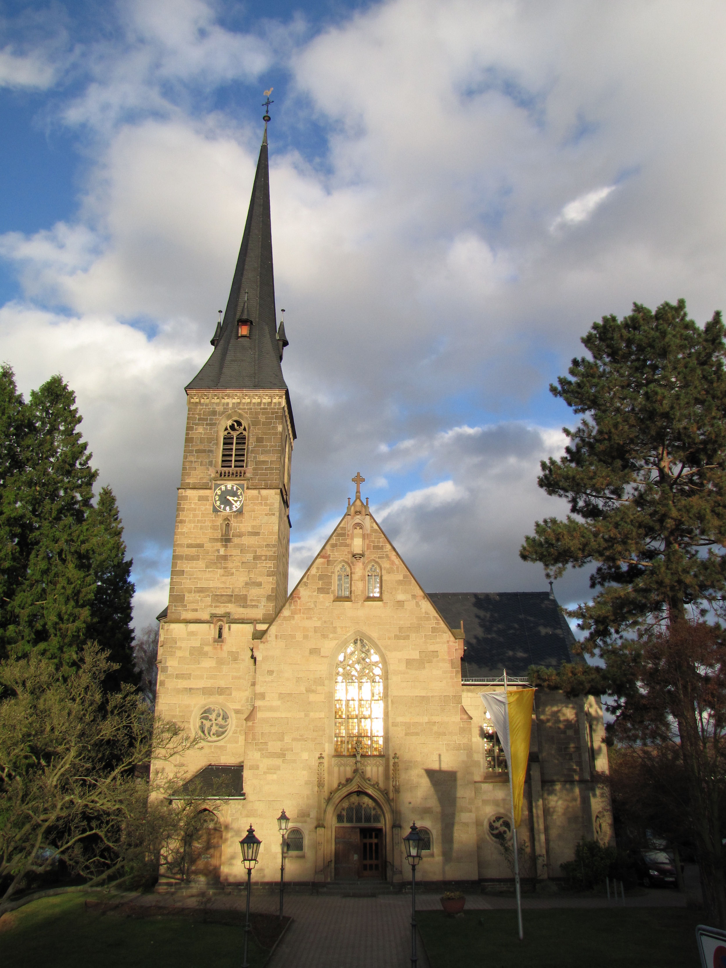 St. Theresia in Rhens